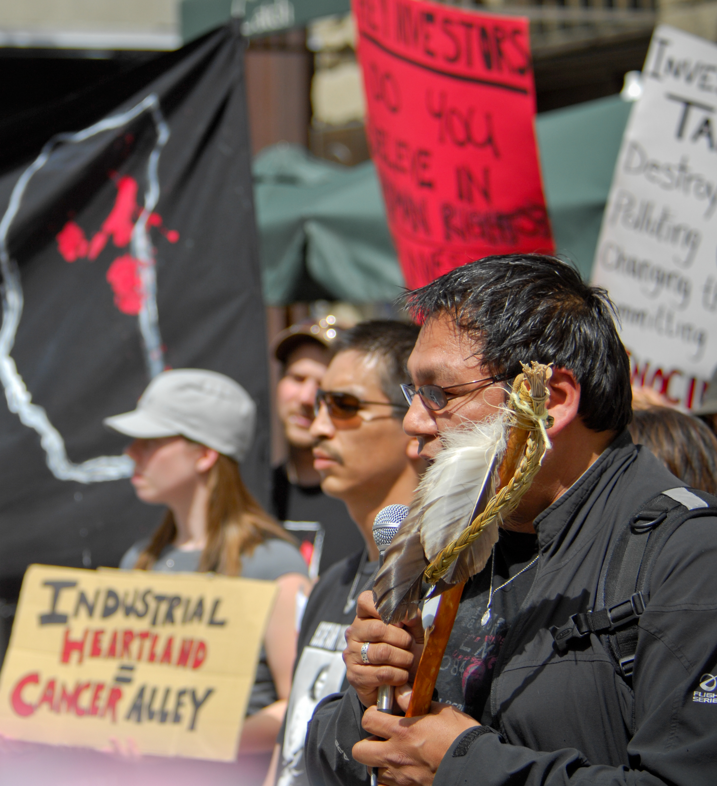 Fort Chipewyan resident address On June 16th, 2008, protesters gathered outside the Canadian Association of Petroleum Producers Investors Conference. The protest was organized by the Sierra Club, ForestEthics, Greenpeace, the Council of Canadians, and the Athabasca Chipewyan First Nation.